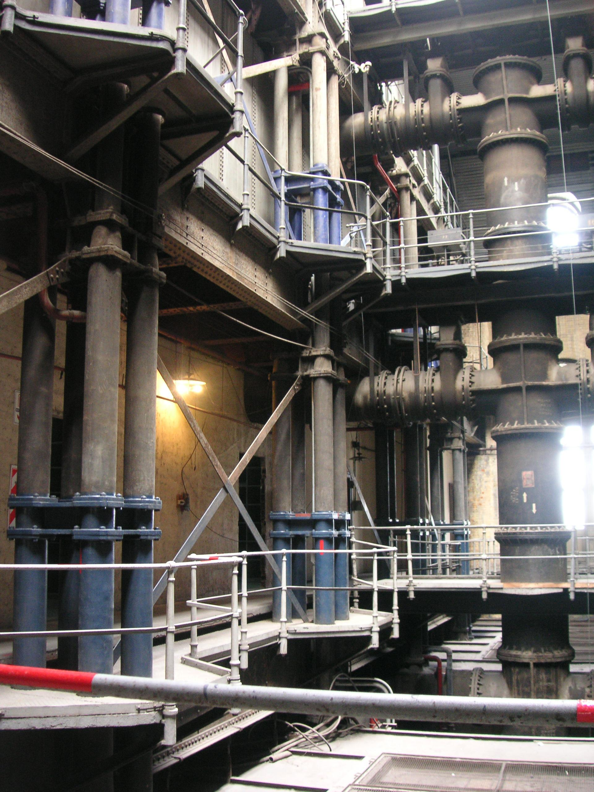 Pipes inside the Water Company Building, Buenos Aires